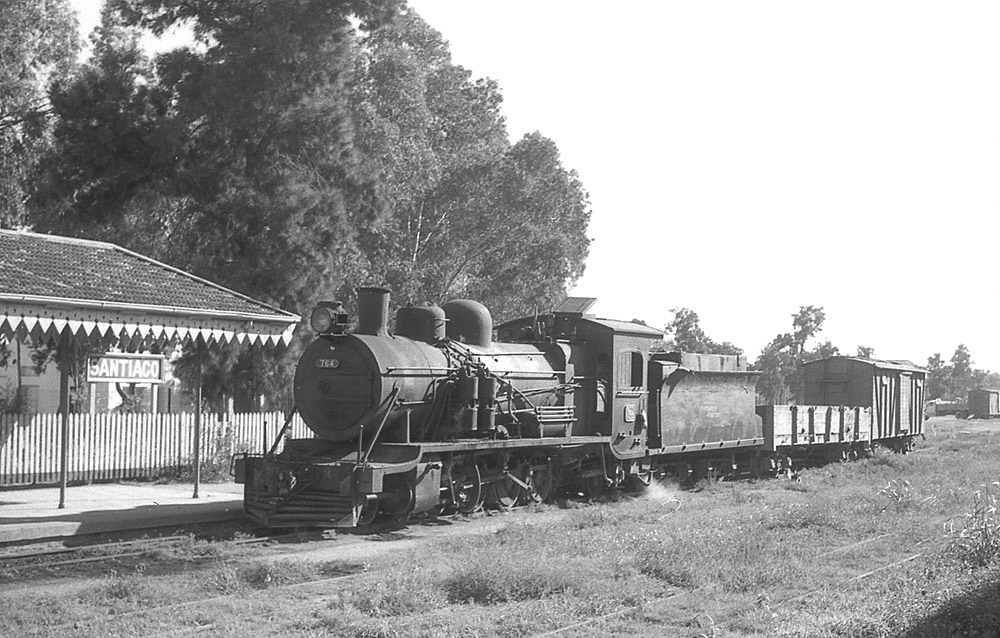 The Santiago del Estero station with a steam locomotive arriving to the platform.